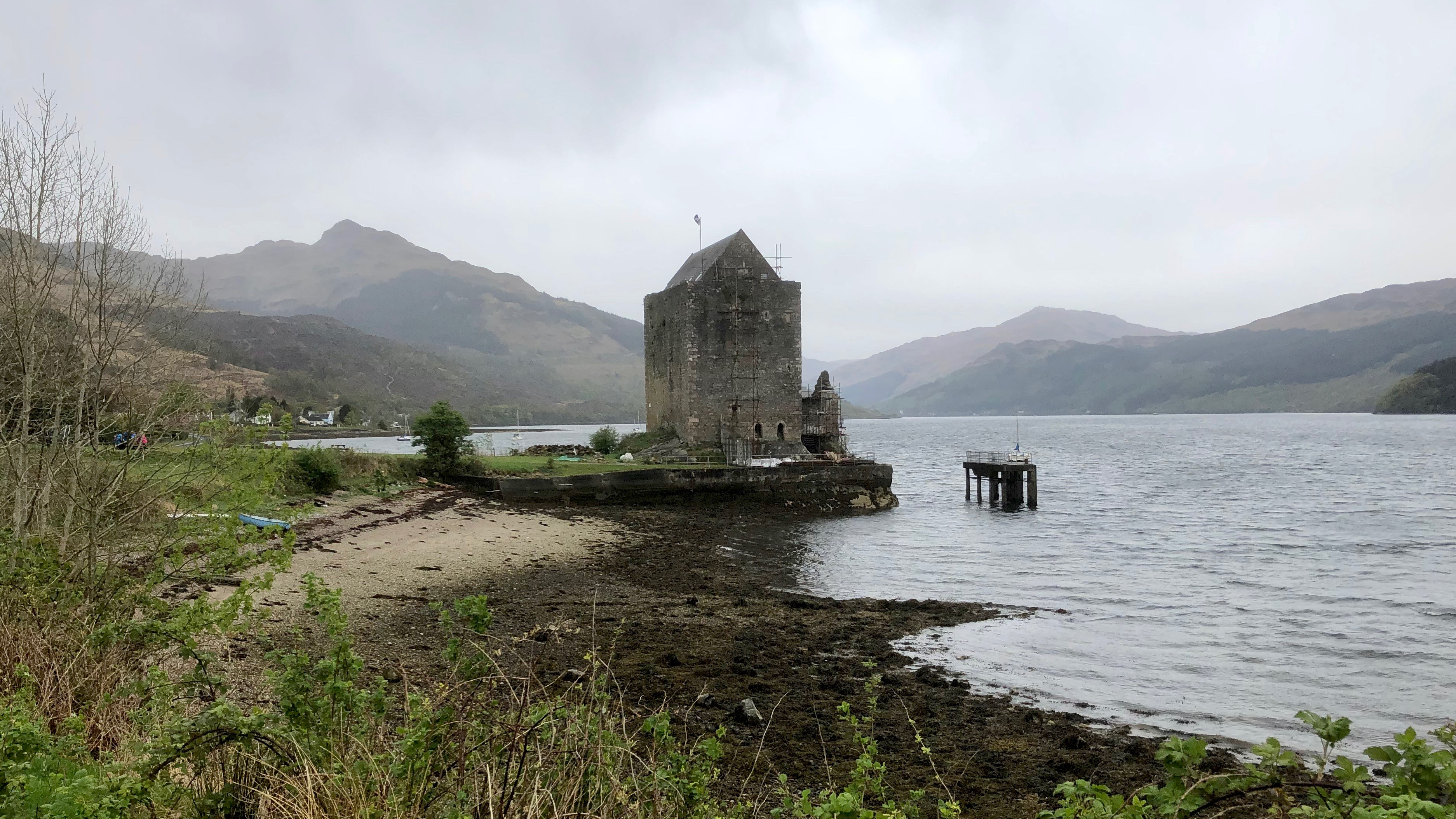 Loch Goil with Carrick Castle tower house